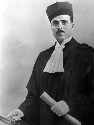 Habib Bourguiba, future Tunisian president, as a young lawyer